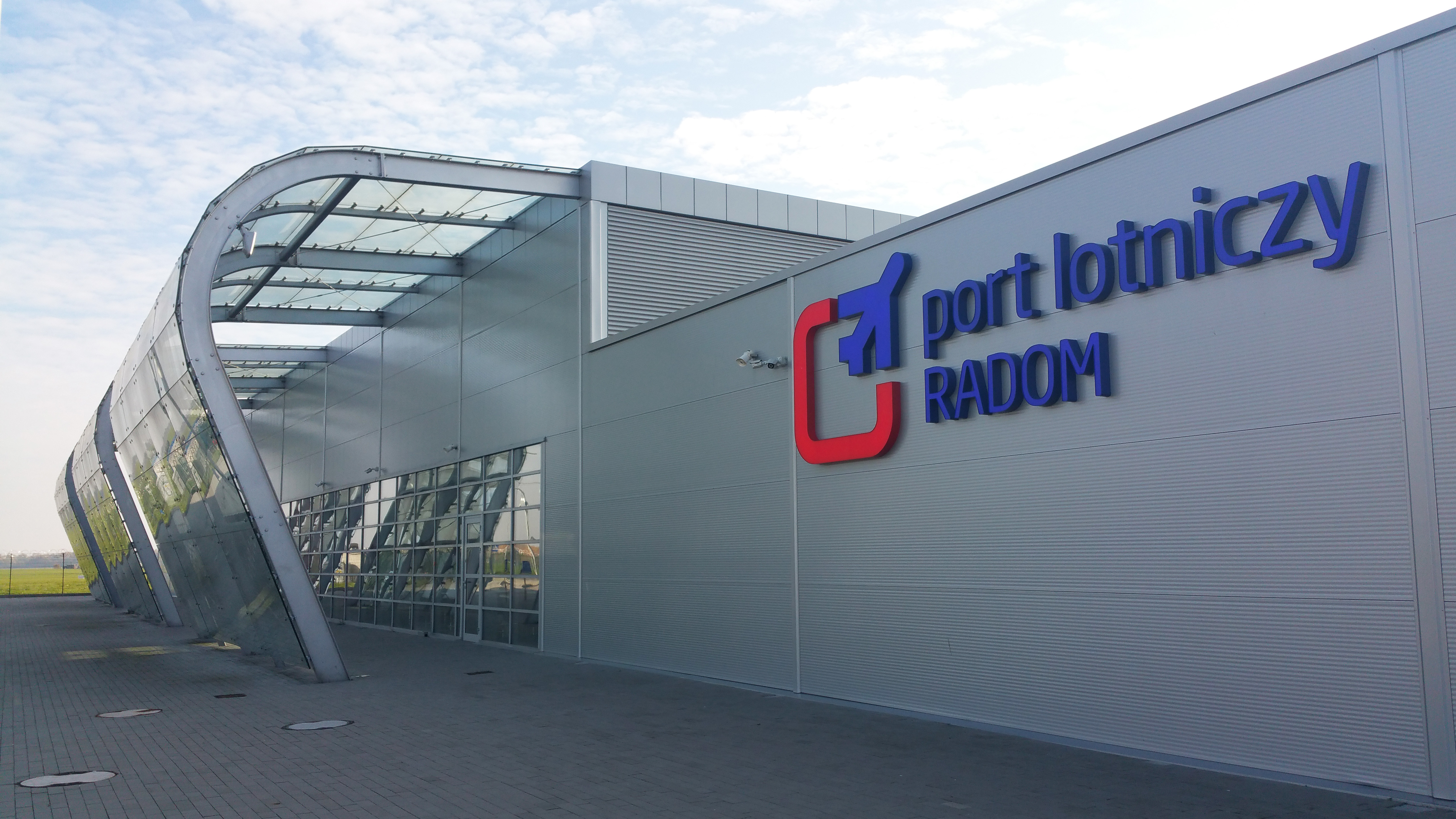 Radom Airport terminal.